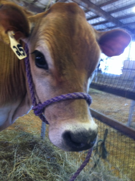 This is a show heifer tied in a rope halter.